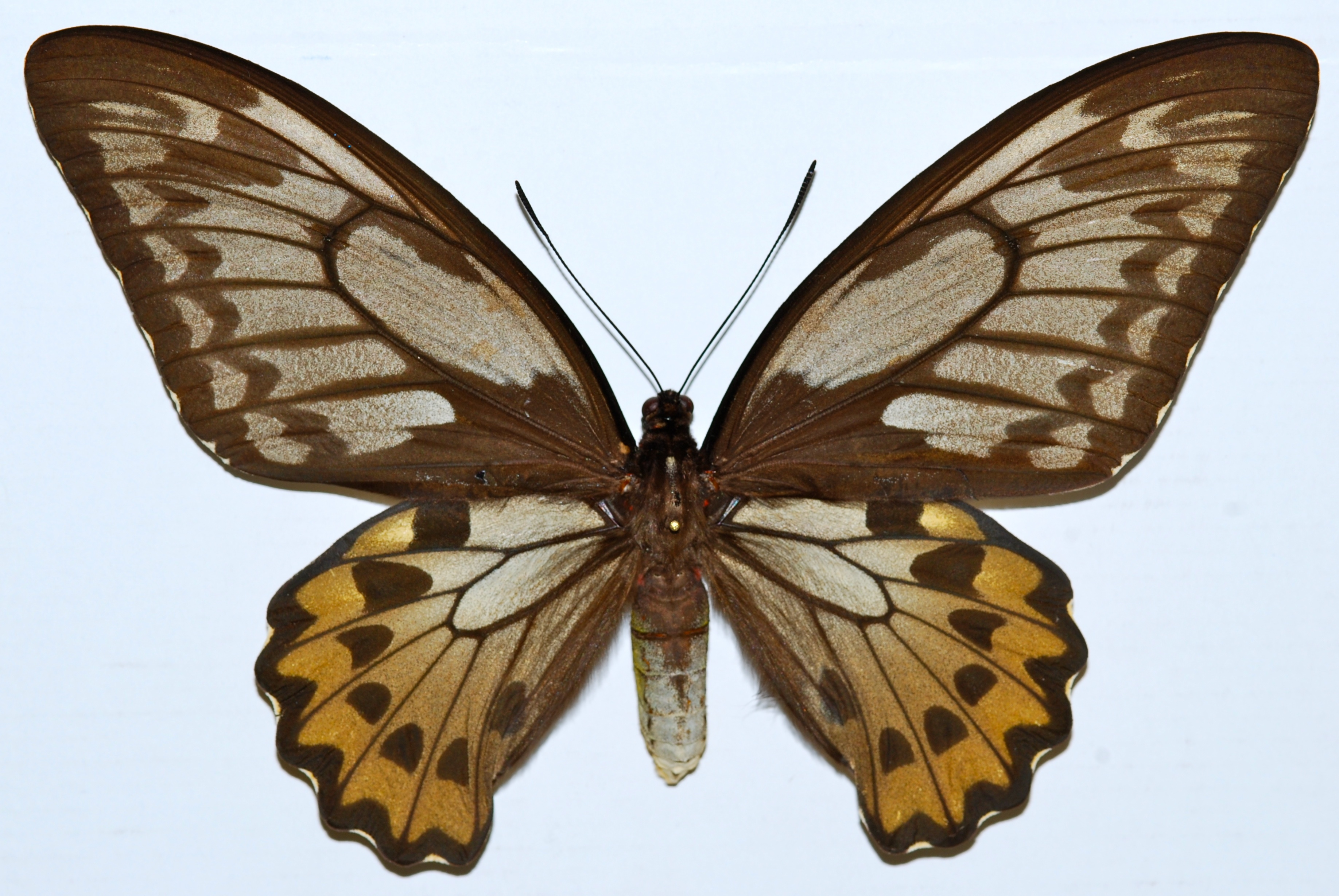 Buin, Bougainville Island, SALOMON ISLANDS